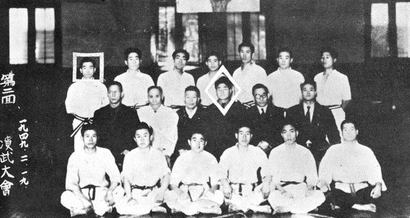 After presenting the 2nd Chang Moo Kwan demonstration at the YMCA Seoul, Korea, on February 19, 1949.